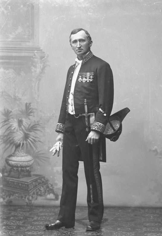 Norwegian medicus Theodor Christian Egeberg, from 1905 the King Haakon VIIs doctor. This photo from 1898 (although the photographer business ended 1894?), he has just received King Oscar II's medal and is wearing lots of previous awards.